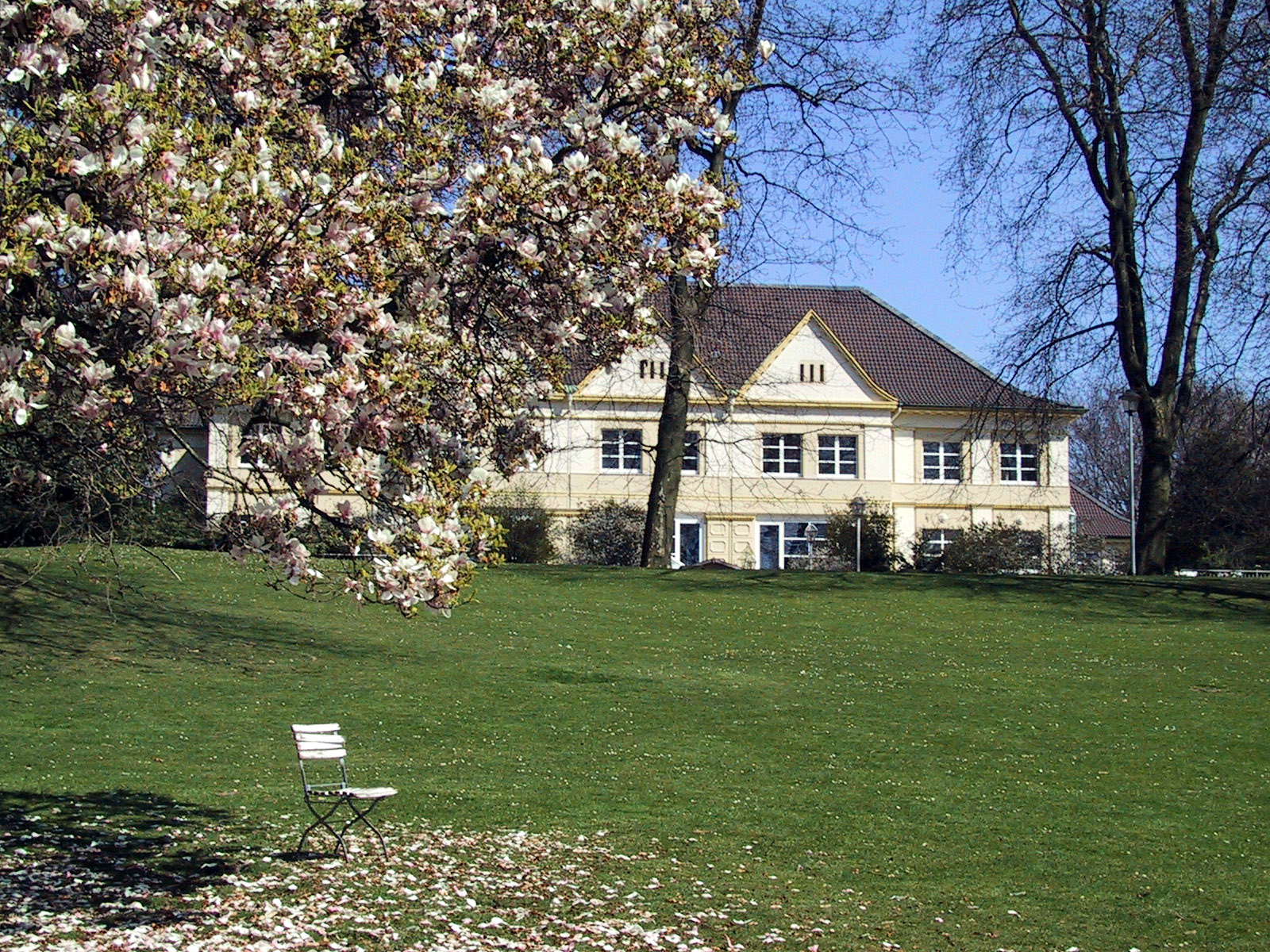 Der Bochumer Stadtpark im Frühling. Im Hintergrund die Gastronomie im Stadtpark Bochum. Leider weiß ich nicht welcher Baum es ist ... ;-) Spring in the city park of Bochum, in the background the well known city park restaurant Date: April 2002, Bochum, Germany Author: Maschinenjunge Licence: cc-by-sa-2.5